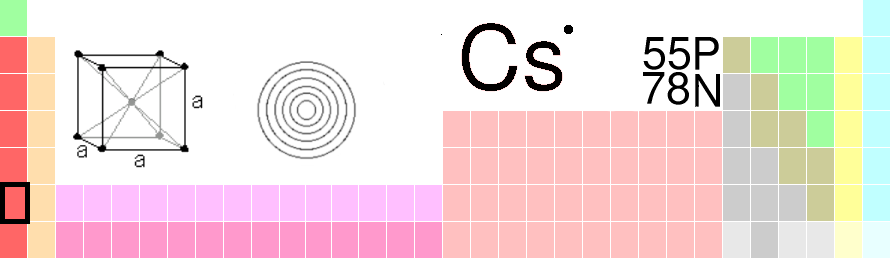 Image by Daniel Mayer or GreatPatton and released under terms of the GNU FDL